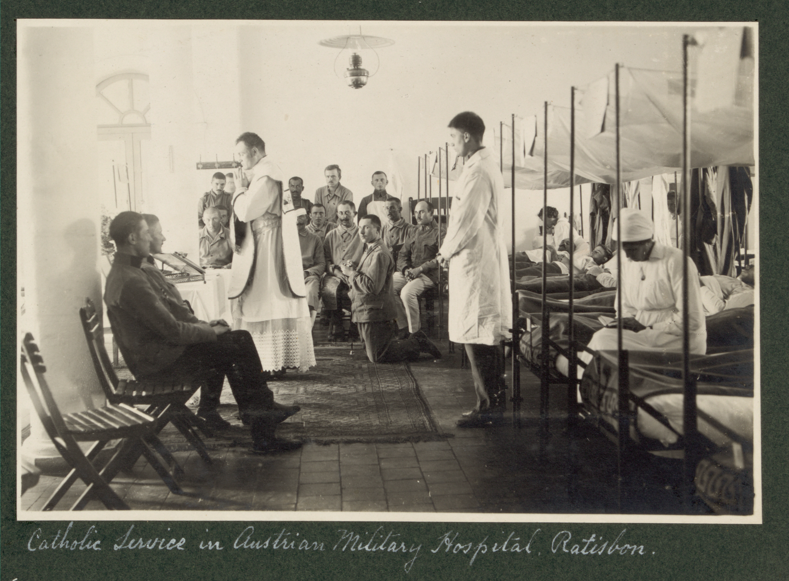 Catholic Service in Austrian Military Hospital, Ratisbon [Ratisbonne]